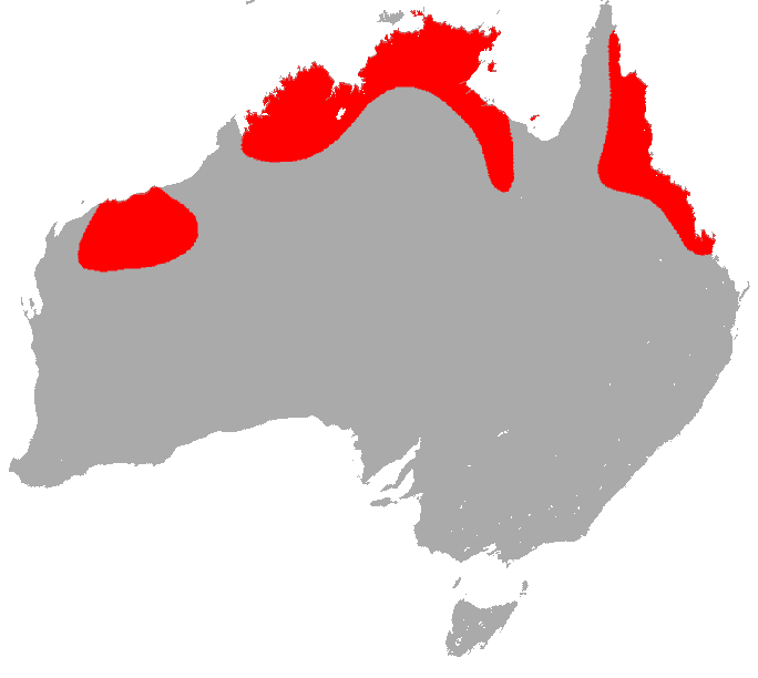 Ghost Bat (Macroderma gigas) range